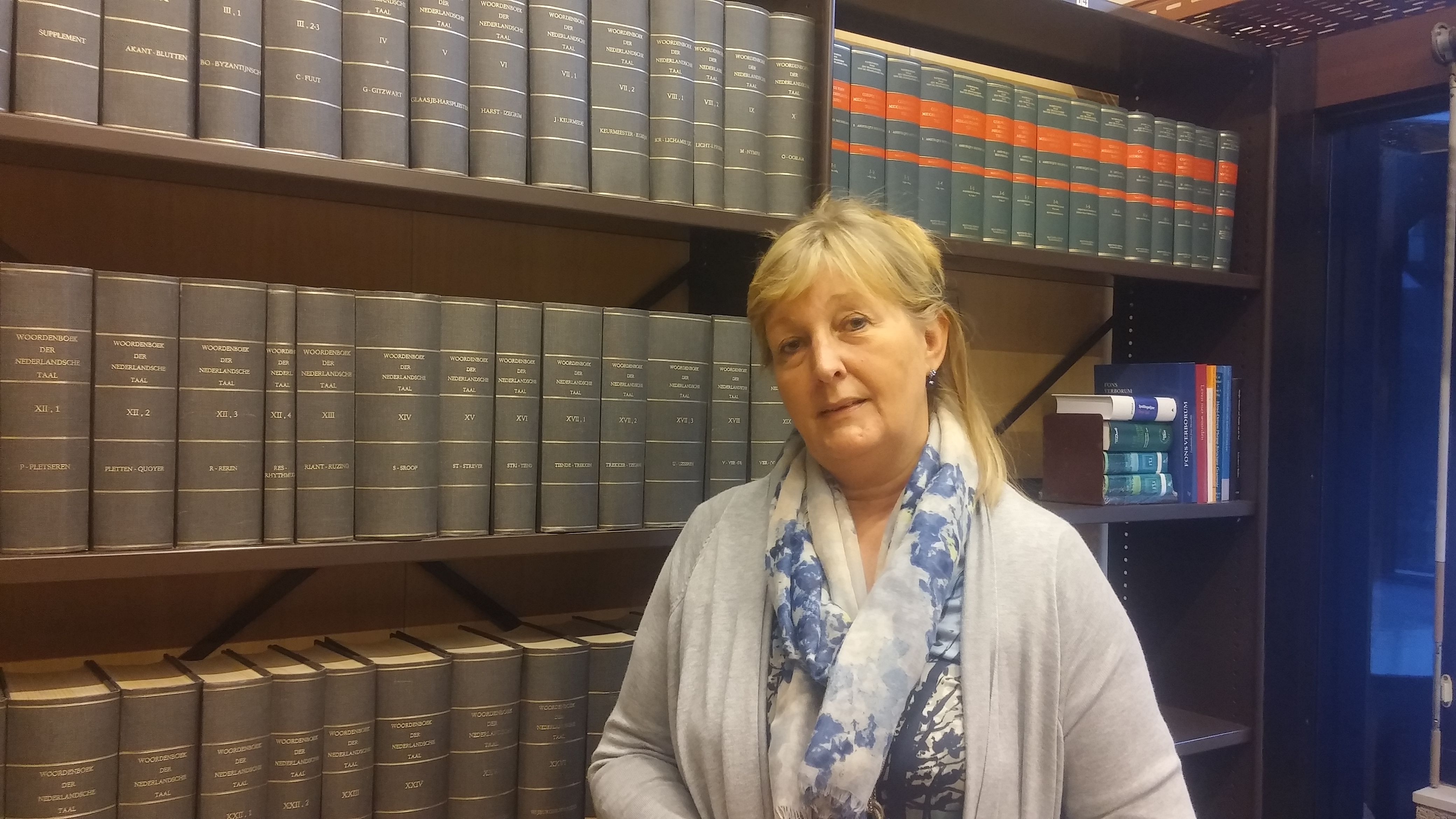 Belgian linguist Frieda Steurs (Oct. 2016)